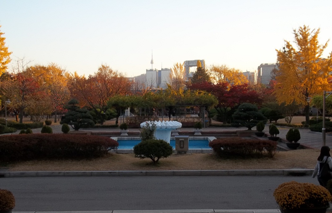 Jeongdok Public Library, Hwa-dong, Jongno-gu, leaving front entrance, Jongno Tower and N Seoul Tower in distance.